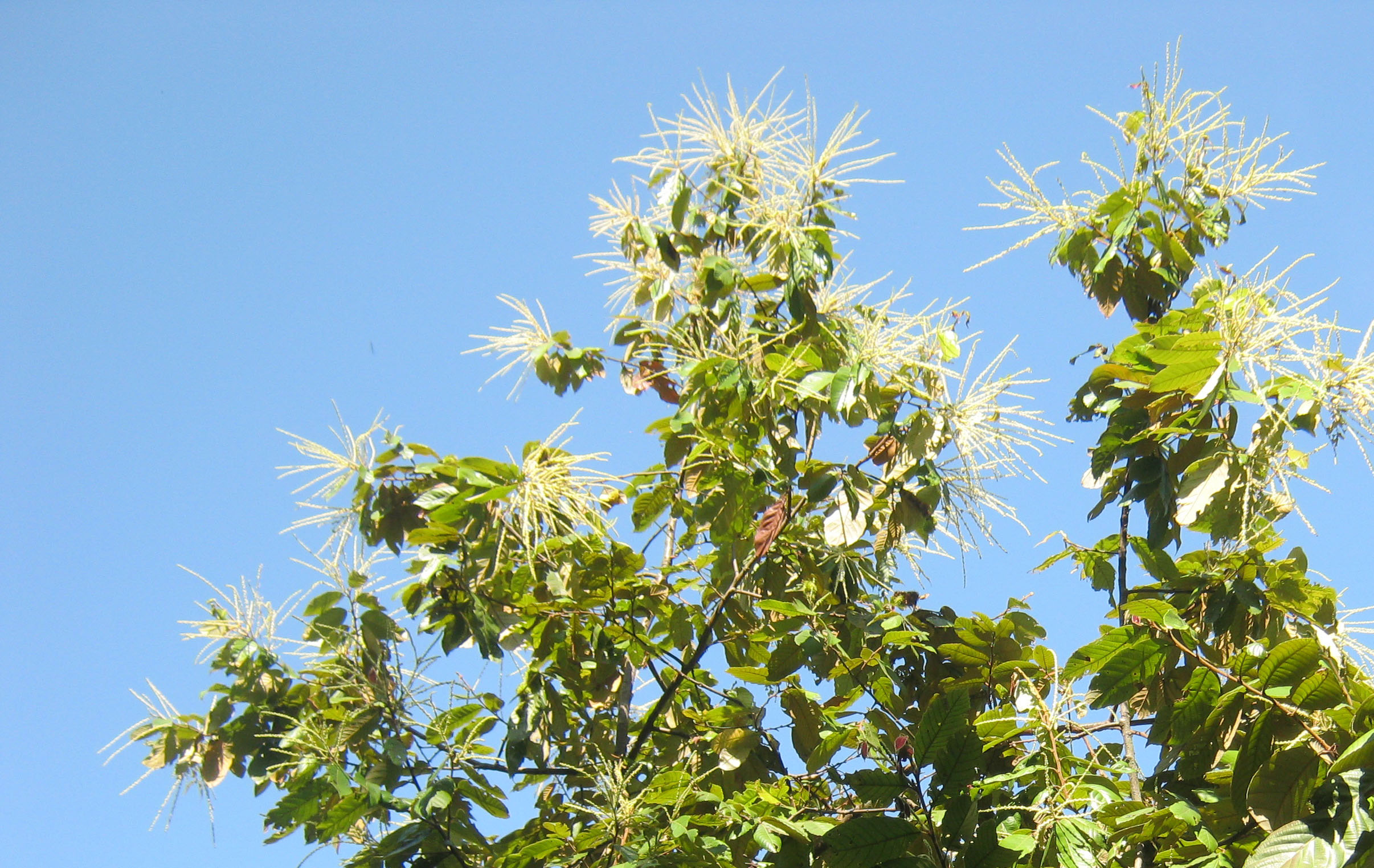 A species of Castanopsis found in Panchkhal Valley in Nepal